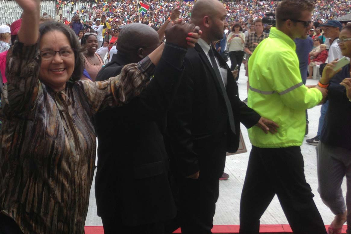 A picture of Patricia de Lille (then Mayor of Cape Town) at the free tribute concert to commemorate Mandela's death at the Cape Town Stadium on Wednesday, 11 December 2013.